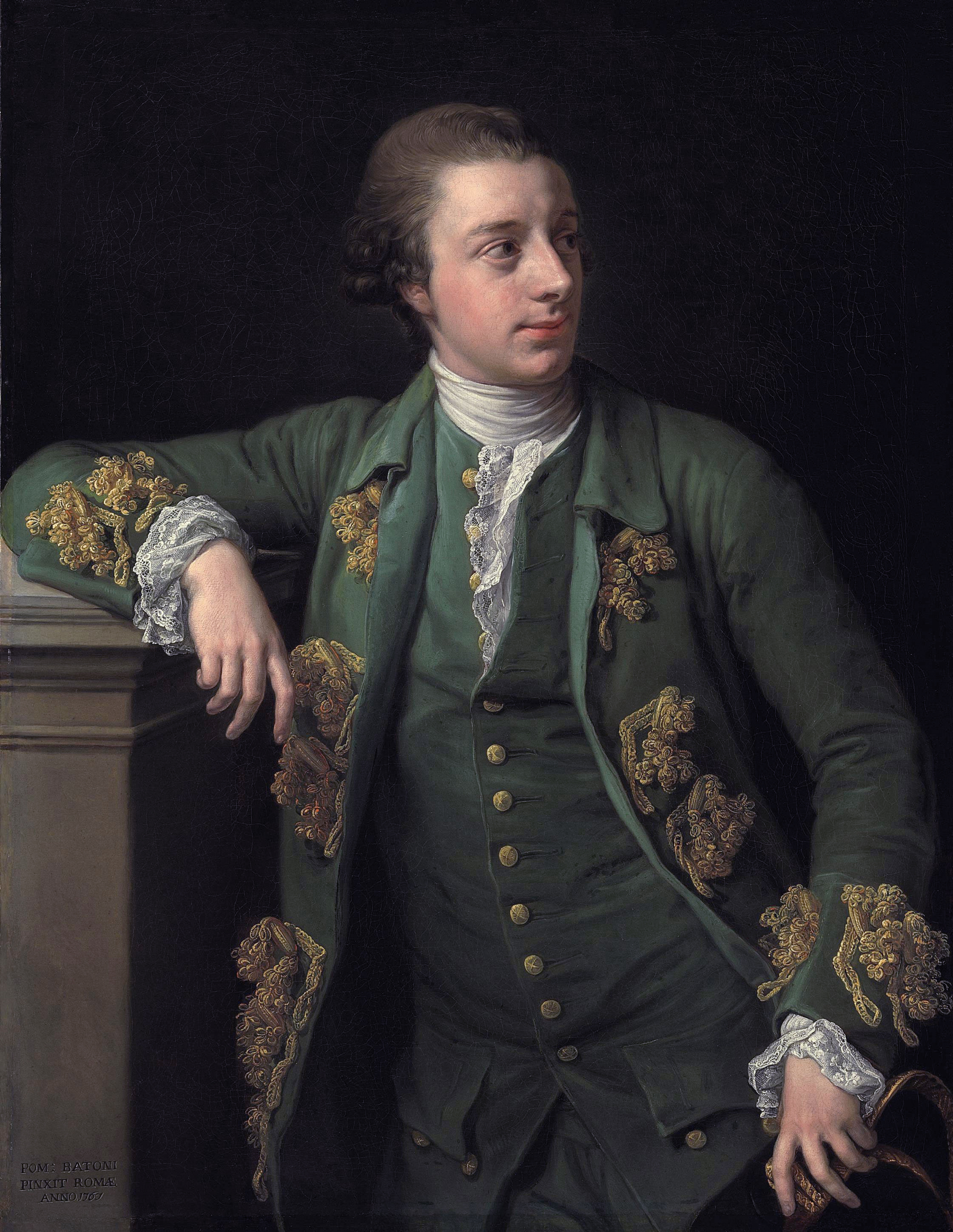 Thomas Fortescue, M.P. (b. 1744) in a gold brocaded green coat, a tricorn in his left hand signed, inscribed and dated 'POM: BATONI/PINXIT ROMAE/ANNO 1767' (lower left) oil on canvas 99 x 75.5 cm.